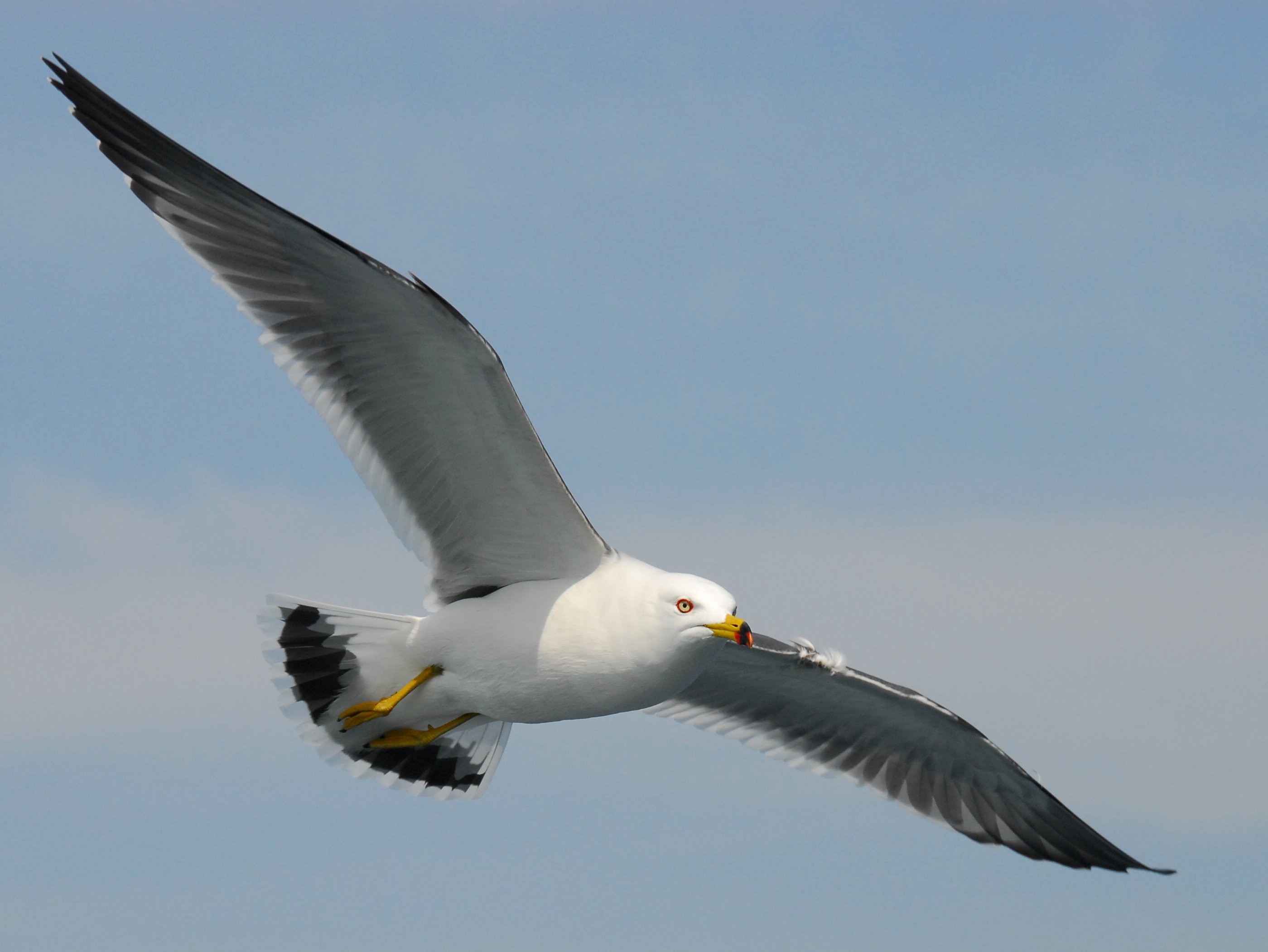 Black-tailed gull (Larus crassirostris) in Japan (ferry across Tokyo bay)